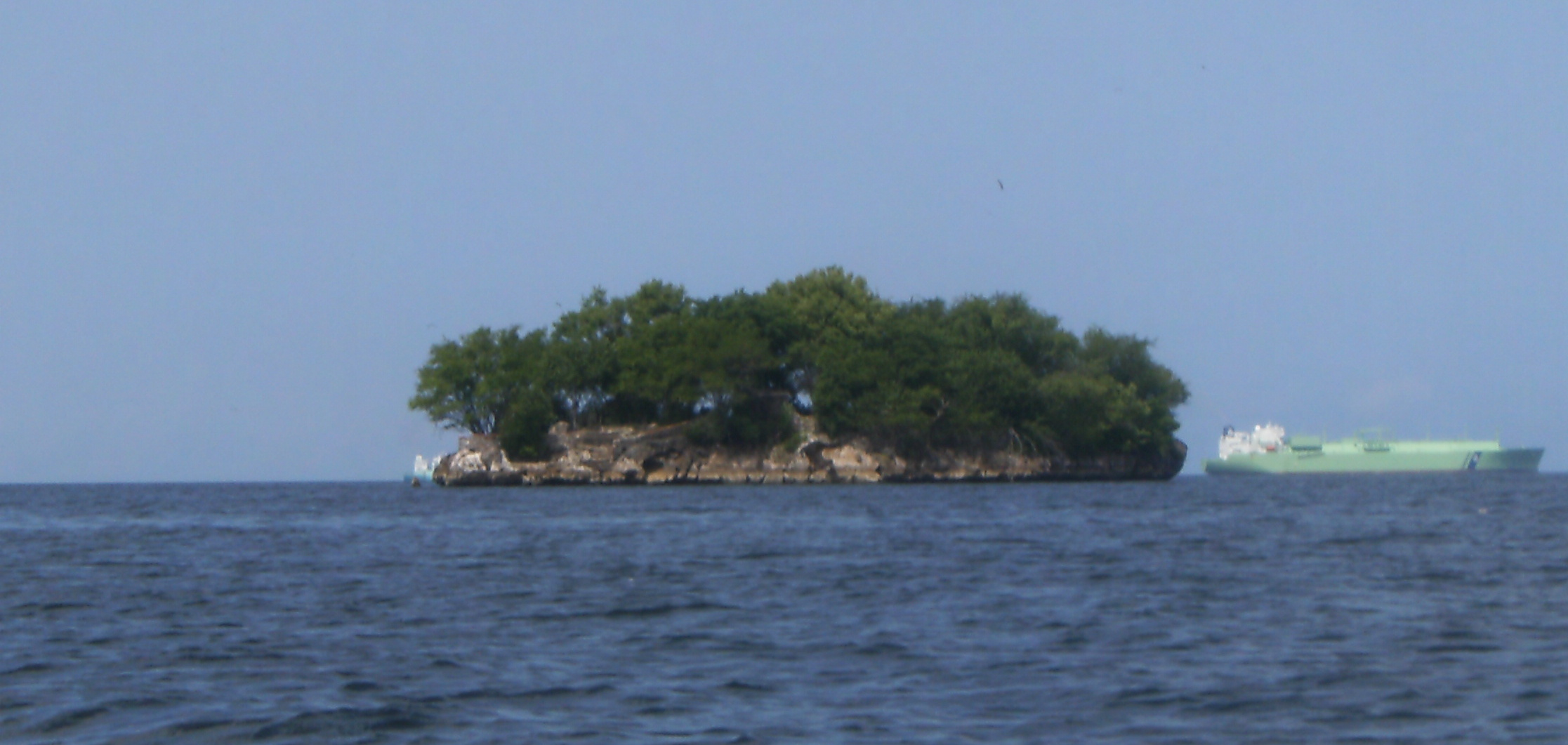 Picture of Rock Island, of the Five Islands in Trinidad and Tobago